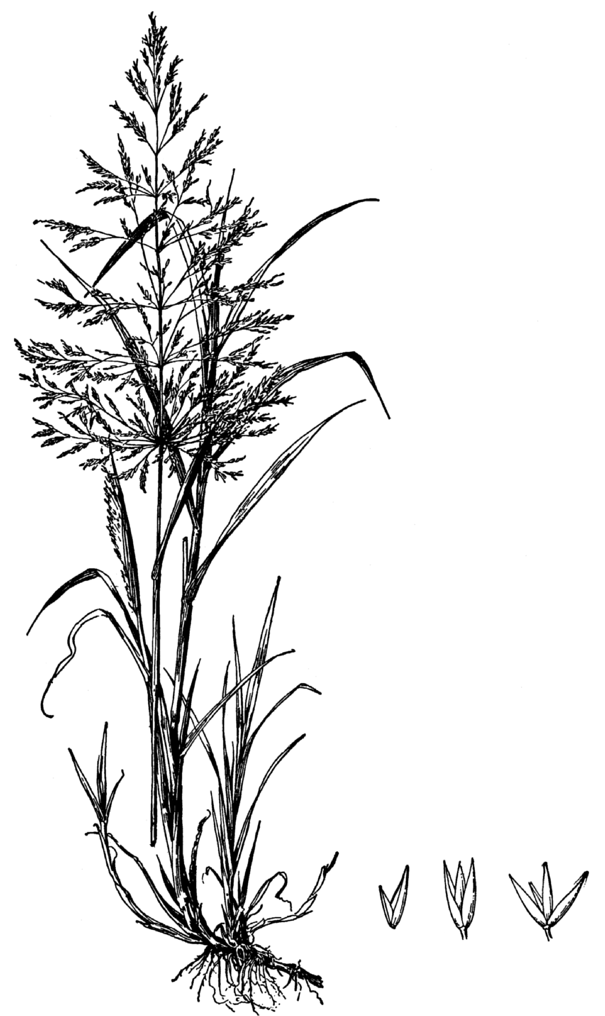 Redtop. Family Poaceae. Drawing.